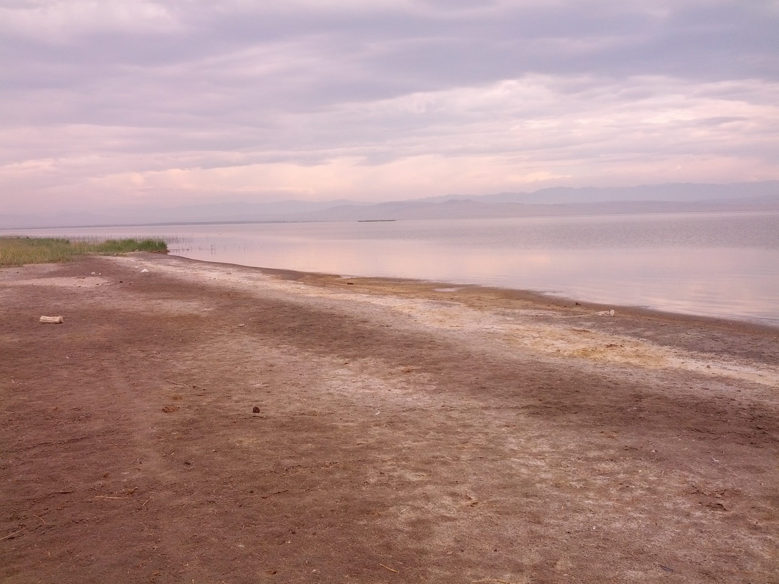 Lake Hadyn